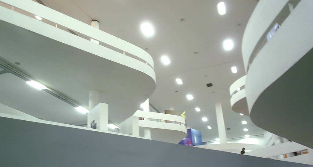 Biennial Pavillion's center hall, at São Paulo (city), Brazil, designed by Oscar Niemeyer. Picture taken by me (User:Gaf.arq) and also available at .